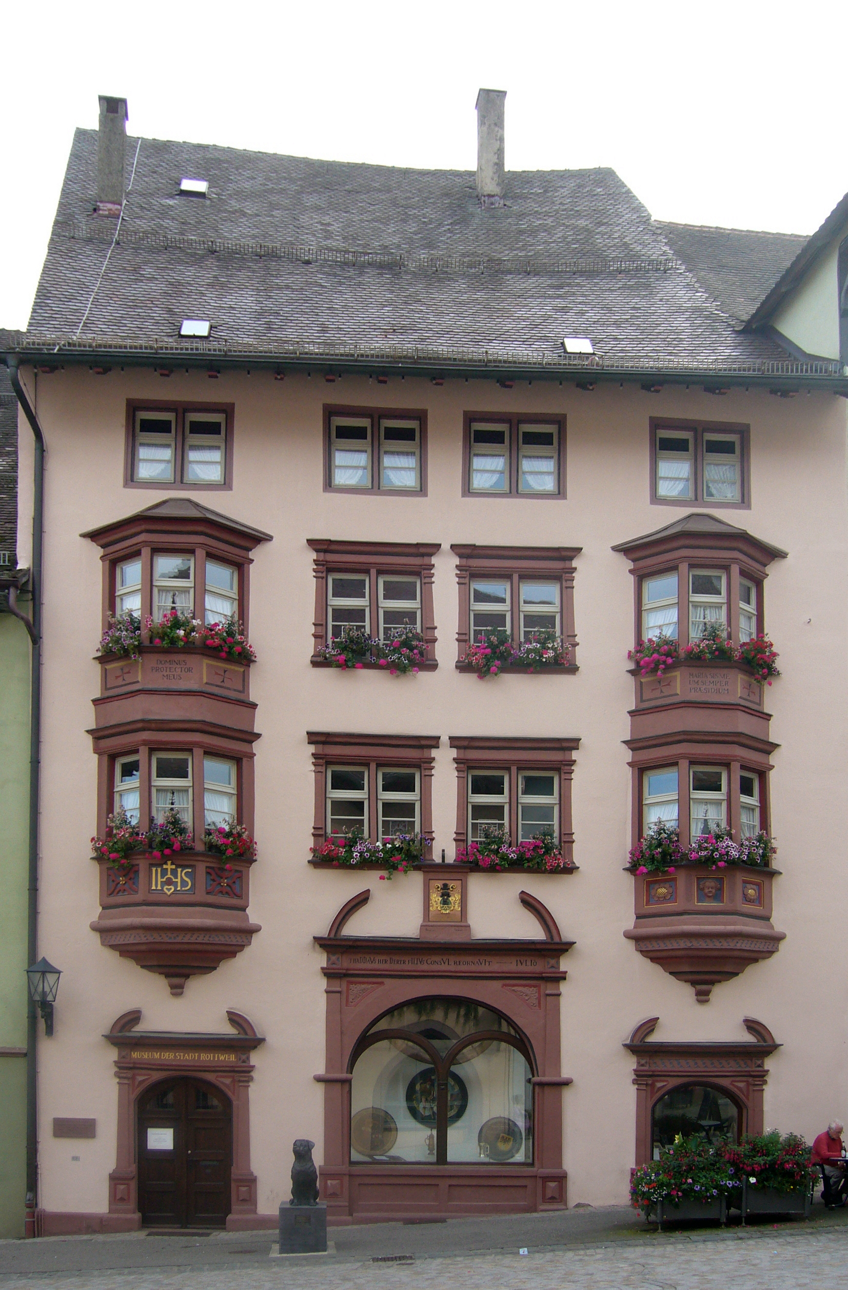 Municipal Museum of Rottweil, Germany